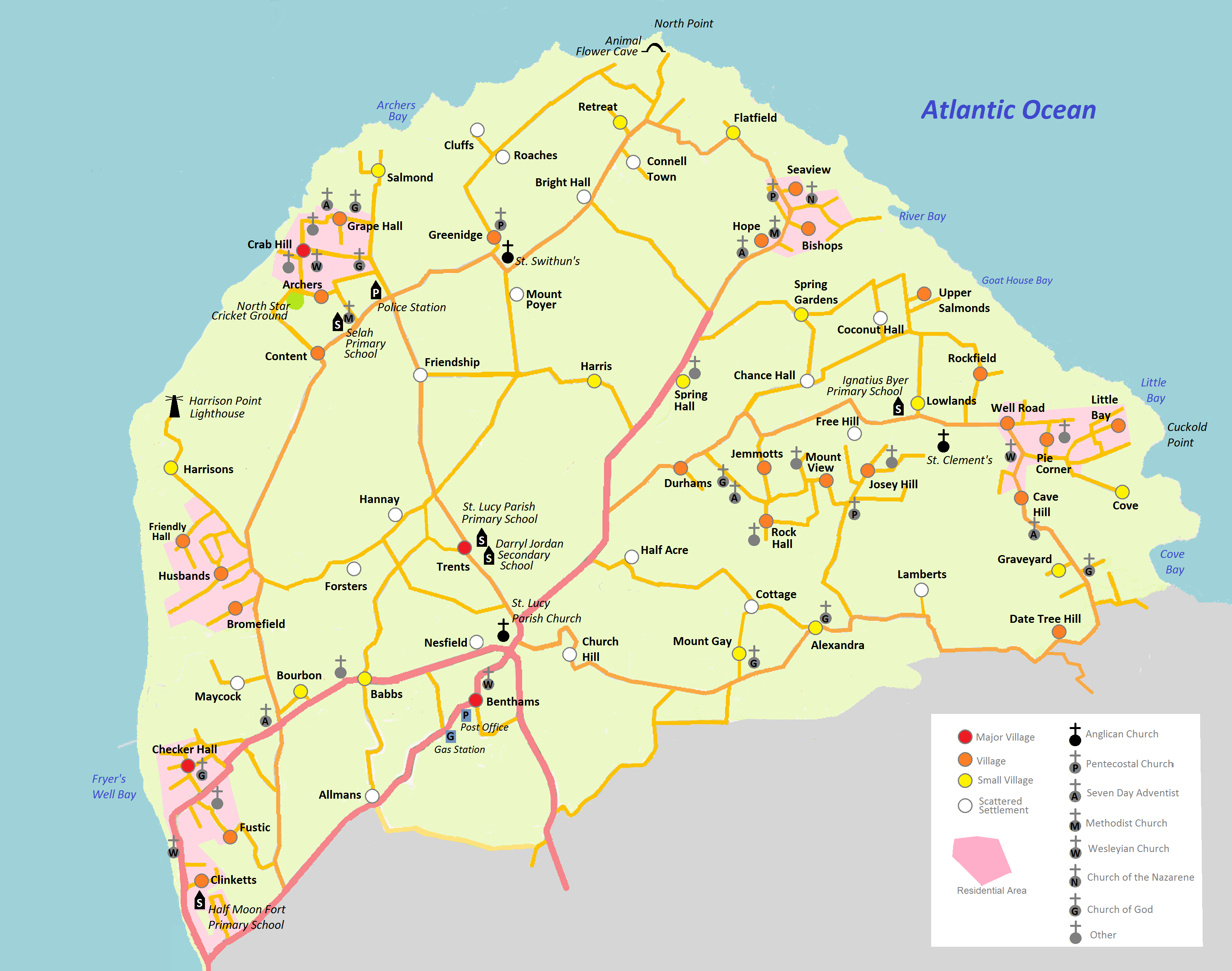 Map of Saint Lucy Parish, showing villages, streets, churches and other places of interest